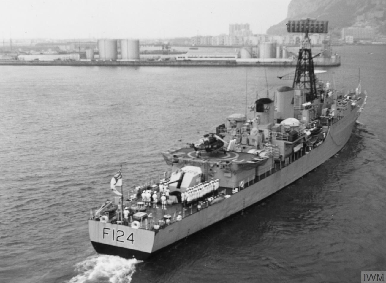 The Royal Navy Tribal-class frigate HMS Zulu (F124) at Gibraltar on 23 September 1977.